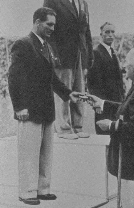 Ivar Sjölin and Adolf Müller at the London Olympics